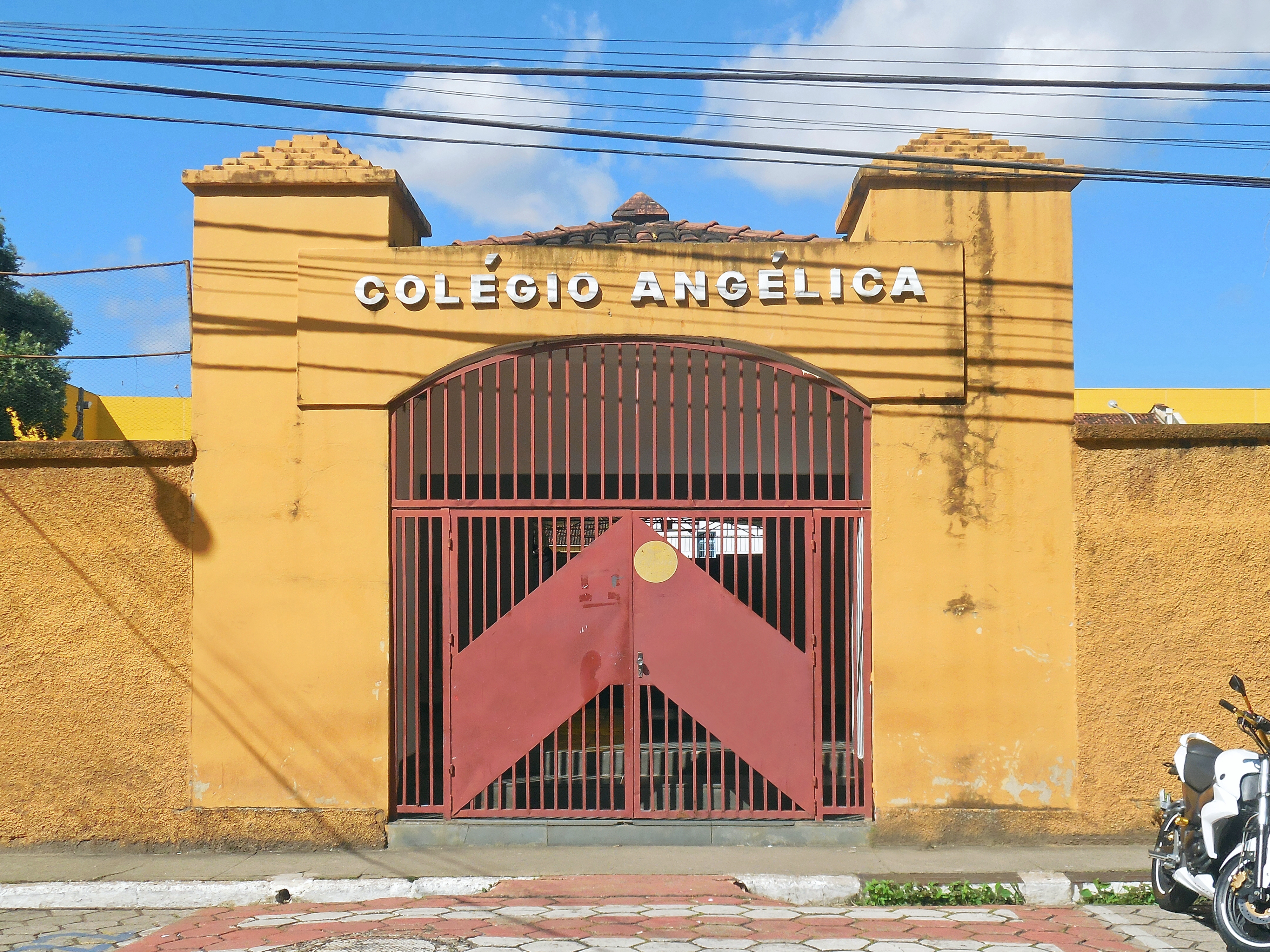 Lateral entrance of the Angélica College, in Coronel Fabriciano, Minas Gerais, Brazil.